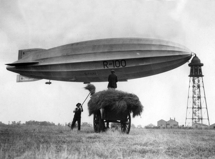 The English airship / Zeppelin R-100 attached to the mooring mast in Bedforshire, just before its journey to Canada, July 1930. Hebt u meer informatie over deze foto, laat het ons weten. Laat een reactie achter (als u ingelogd bent bij Flickr) of stuur een mailtje naar: Please help us gain more knowledge on the content of our collection by simply adding a comment with information. If you do not wish to log in, you can write an e-mail to: Meer foto’s van Spaarnestad Photo zijn te vinden op onze beeldbank